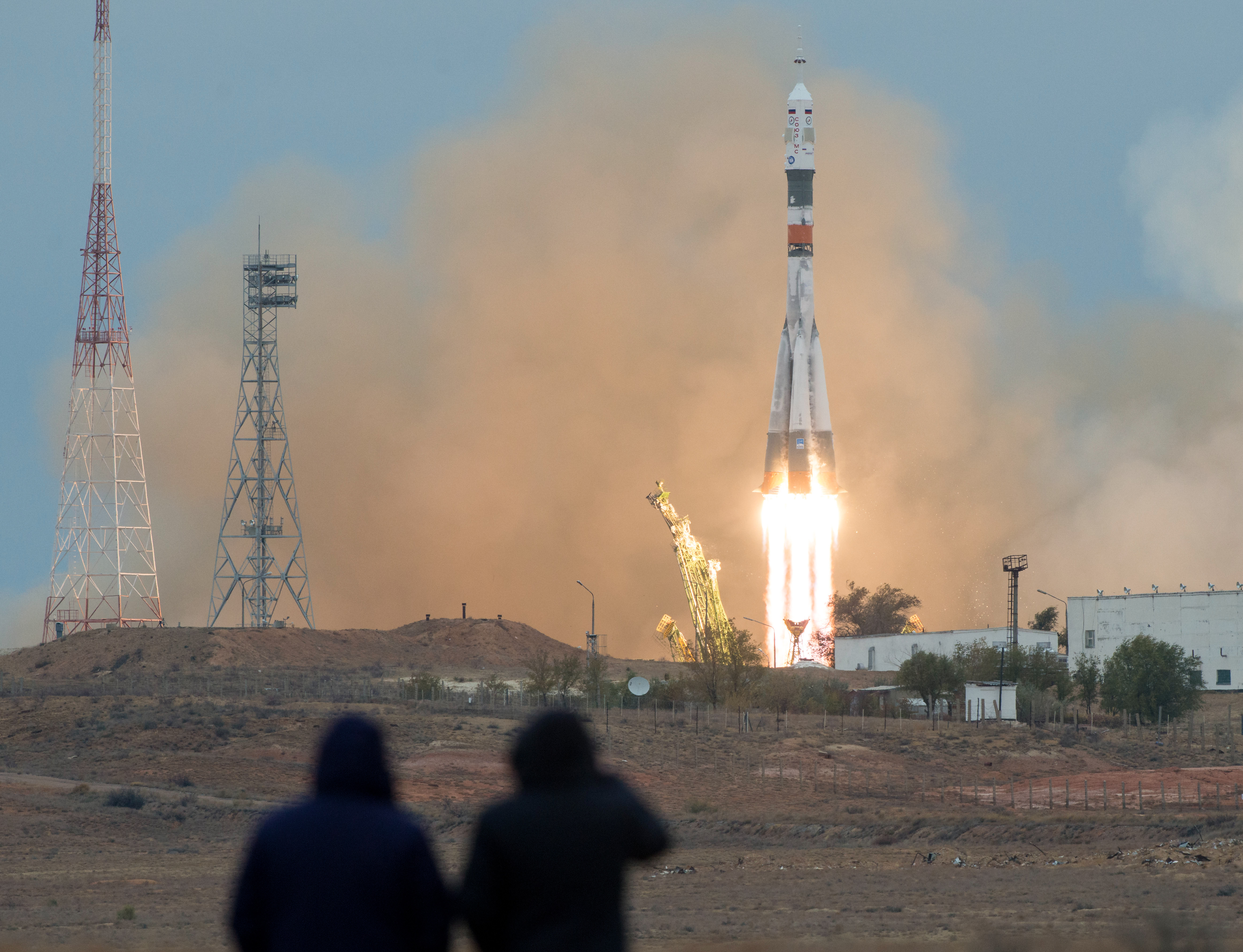 The Soyuz MS-02 rocket is launched with Expedition 49 Soyuz commander Sergey Ryzhikov of Roscosmos, flight engineer Shane Kimbrough of NASA, and flight engineer Andrey Borisenko of Roscosmos, Wednesday, Oct. 19, 2016 at the Baikonur Cosmodrome in Kazakhstan. Ryzhikov, Kimbrough, and Borisenko will spend the next four months living and working aboard the International Space Station.